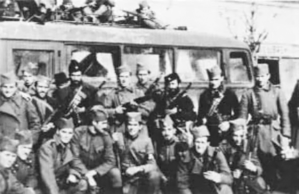 Serbian Volunteer Corps with Chetniks of Draža Mihailović, December 1941.